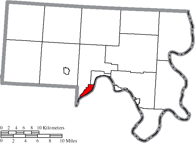 Map of the municipal and township boundaries of Meigs County, Ohio, United States, as of the 2000 census, with the location of the village of Middleport highlighted. Township borders are shown only in unincorporated areas in order to differentiate incorporated and unincorporated areas more clearly.